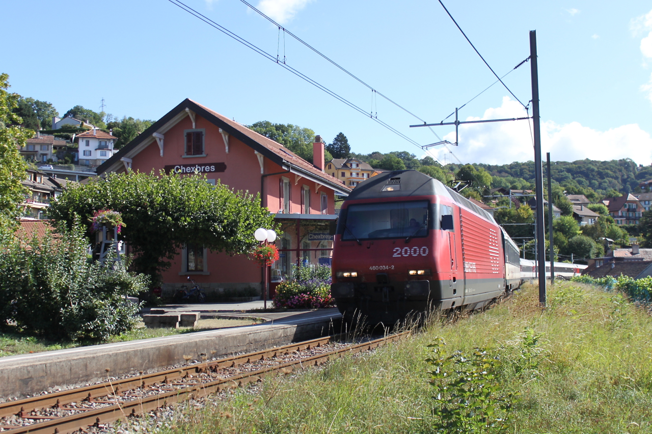 Re 460 034-2 passing Chexbres-Village station while pulling a diverted InterRegio to Lucerne.